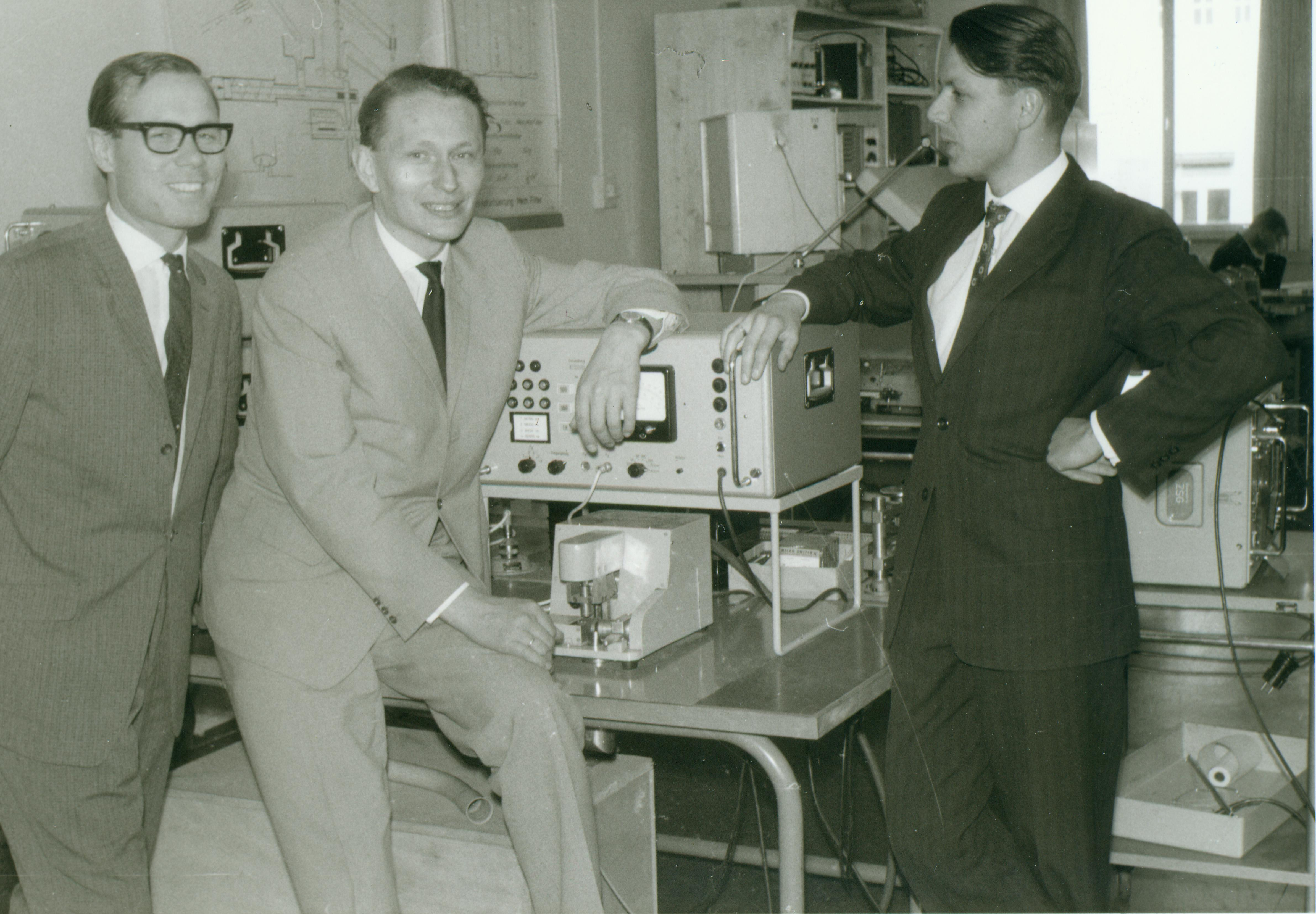 Manfred Börner 1961 Telefunken Forschungsinstitut Ulm